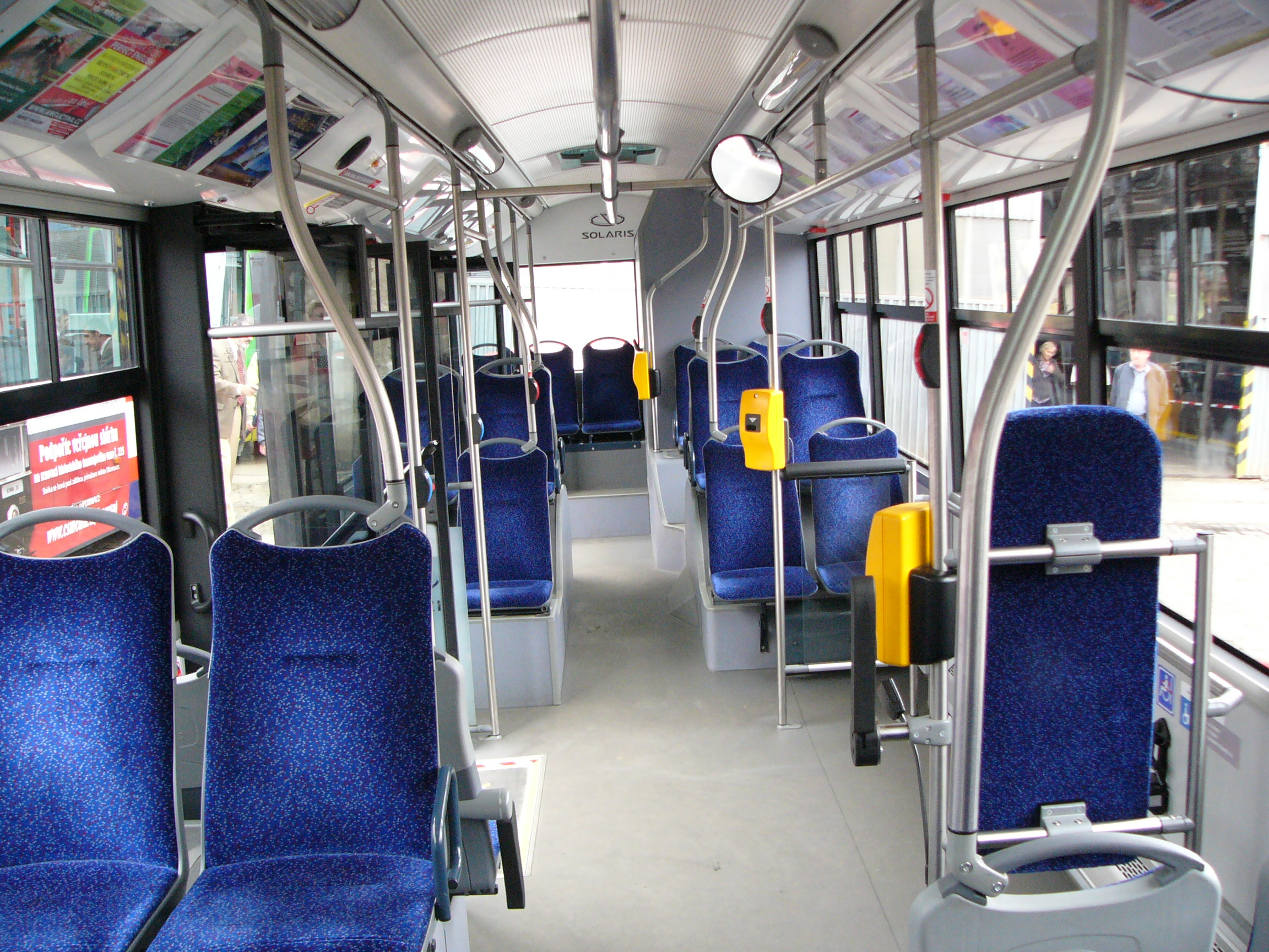 Interior of bus Solaris Urbino 12 (#627). Year built 2008, DP Olomouc operator. Photo taken in Olomouc, Czech Republic.